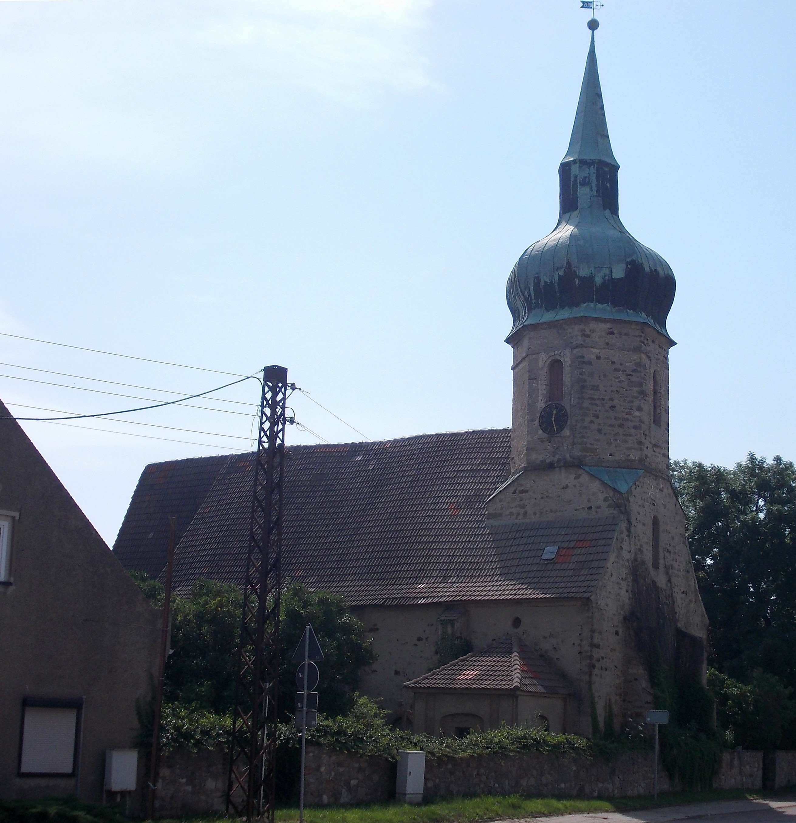 Beuchlitz church (Teutschenthal, district: Saalekreis, Saxony-Anhalt)